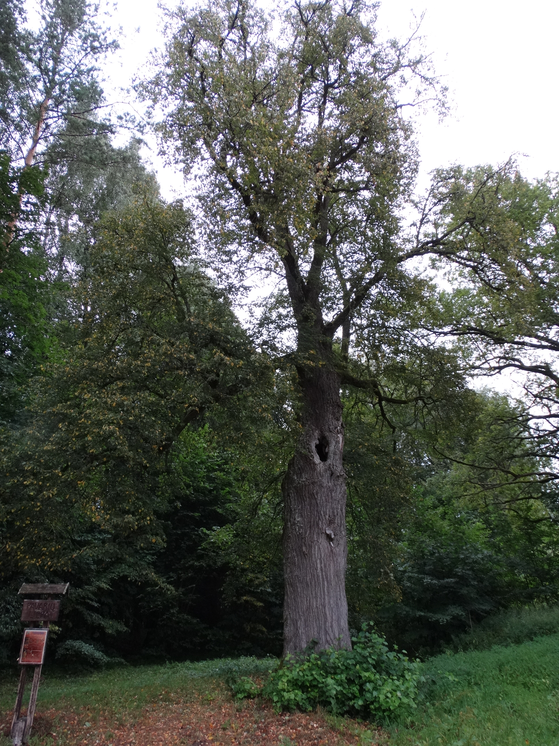 Lime tree, Pavariai, Anykščiai district, Lithuania